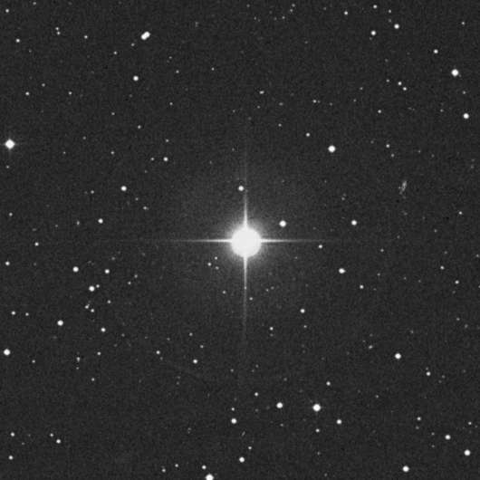 The picture of 51 Peg the planet is not visible - it can only be detected by noticing small changes in the star's motion.